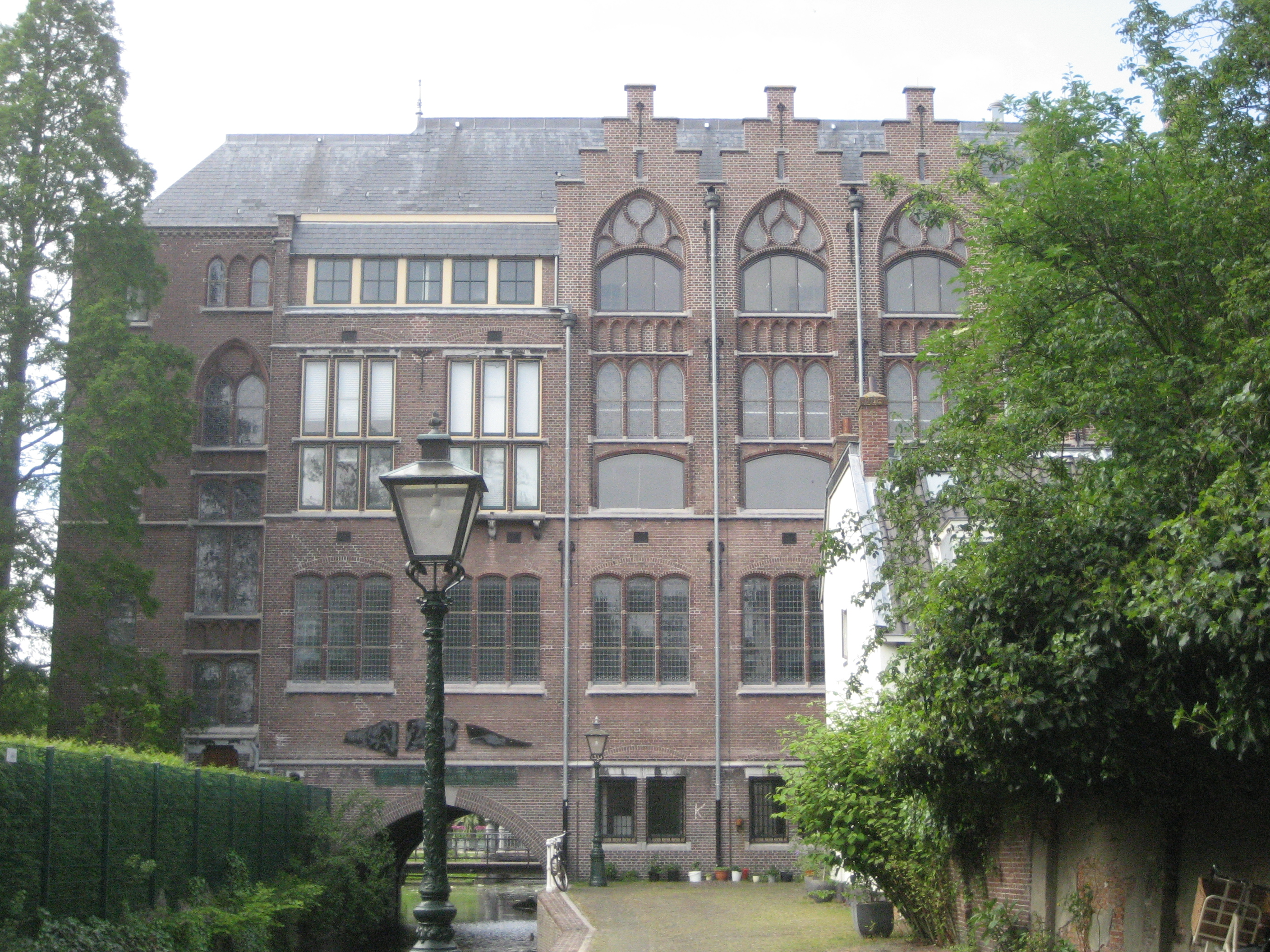 P.J. Veth building, Nonnensteeg 3, Leiden (The Netherlands). Leiden University.